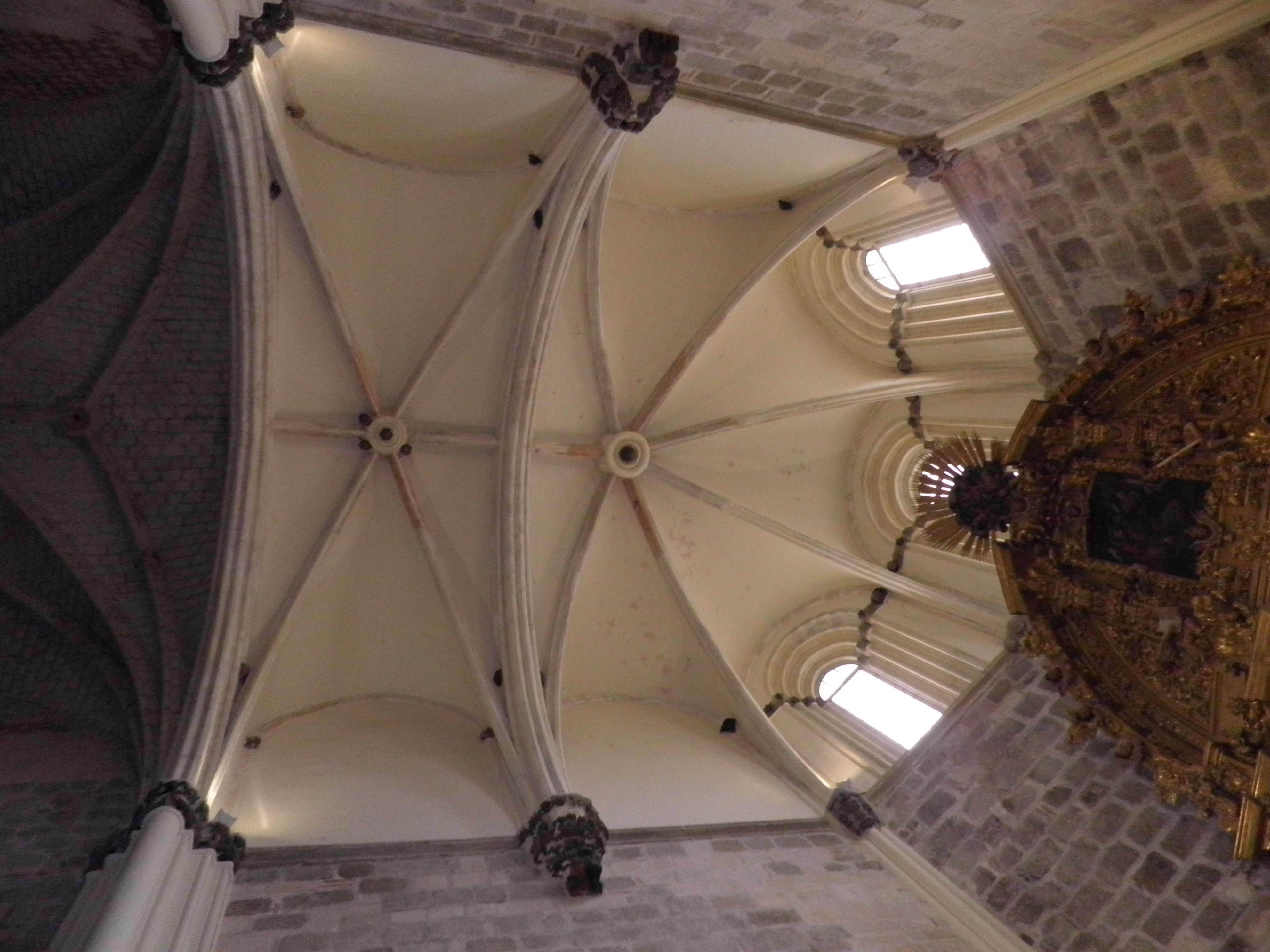 Apse ceiling of church of Santa María la Real de Nieva.